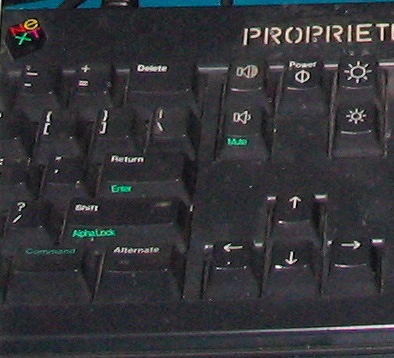 Part of the keyboard of a NeXT computer showing the command key and the modifiable keys